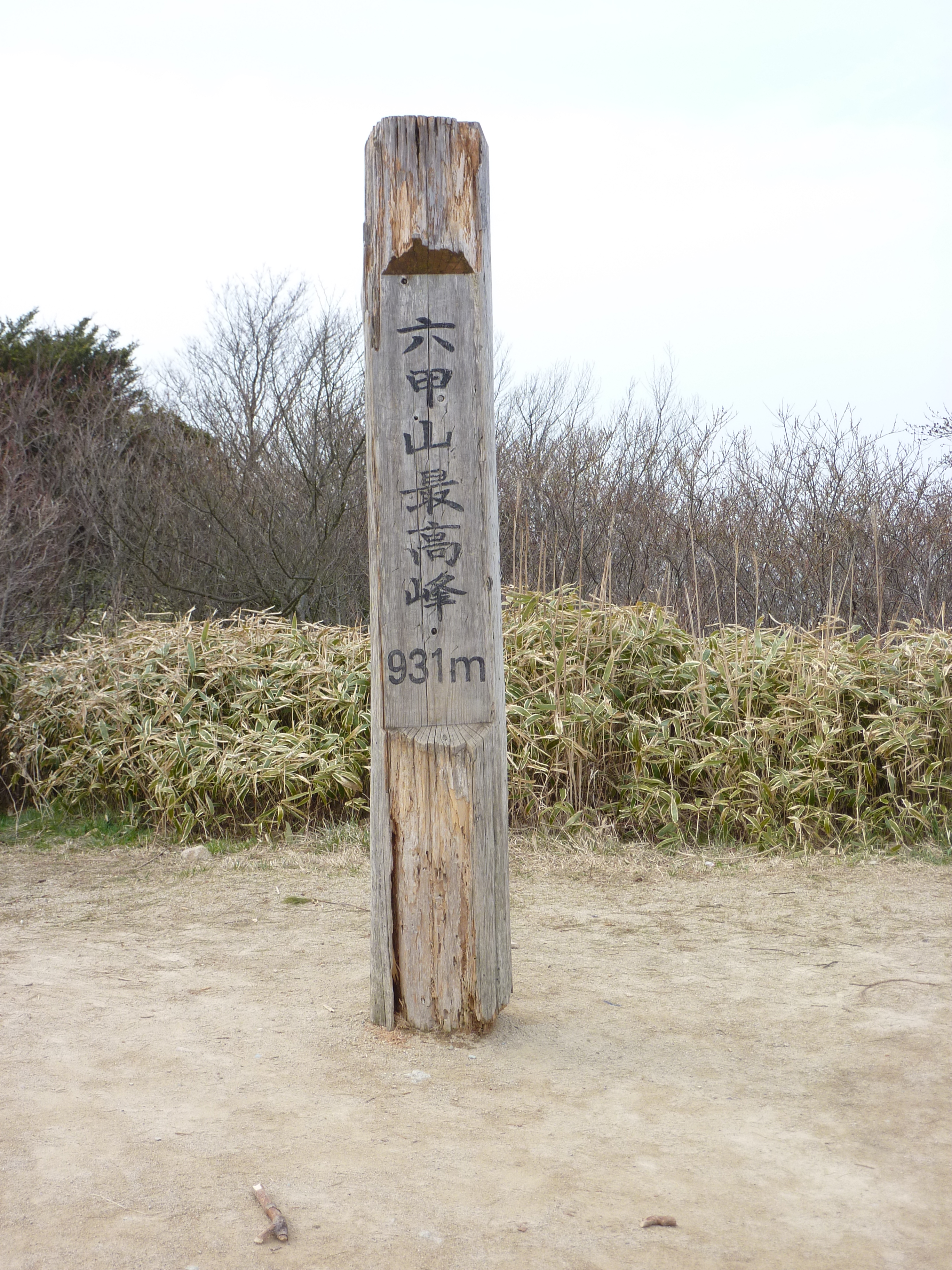 This picture is of a marker at the summit of Mount Rokkō, signifying the highest peak of the mountain range.